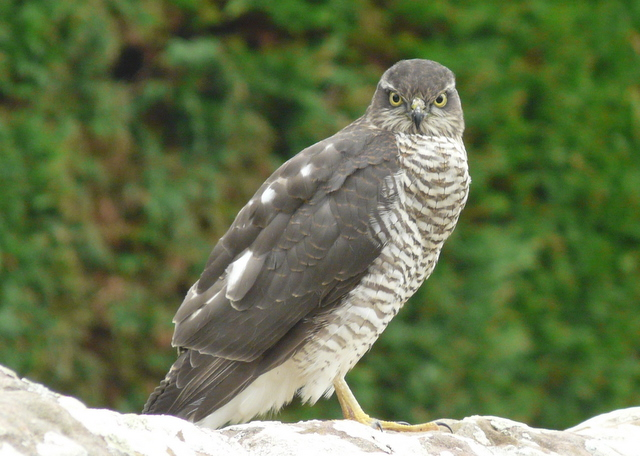 Female sparrowhawk Resting on my garden wall